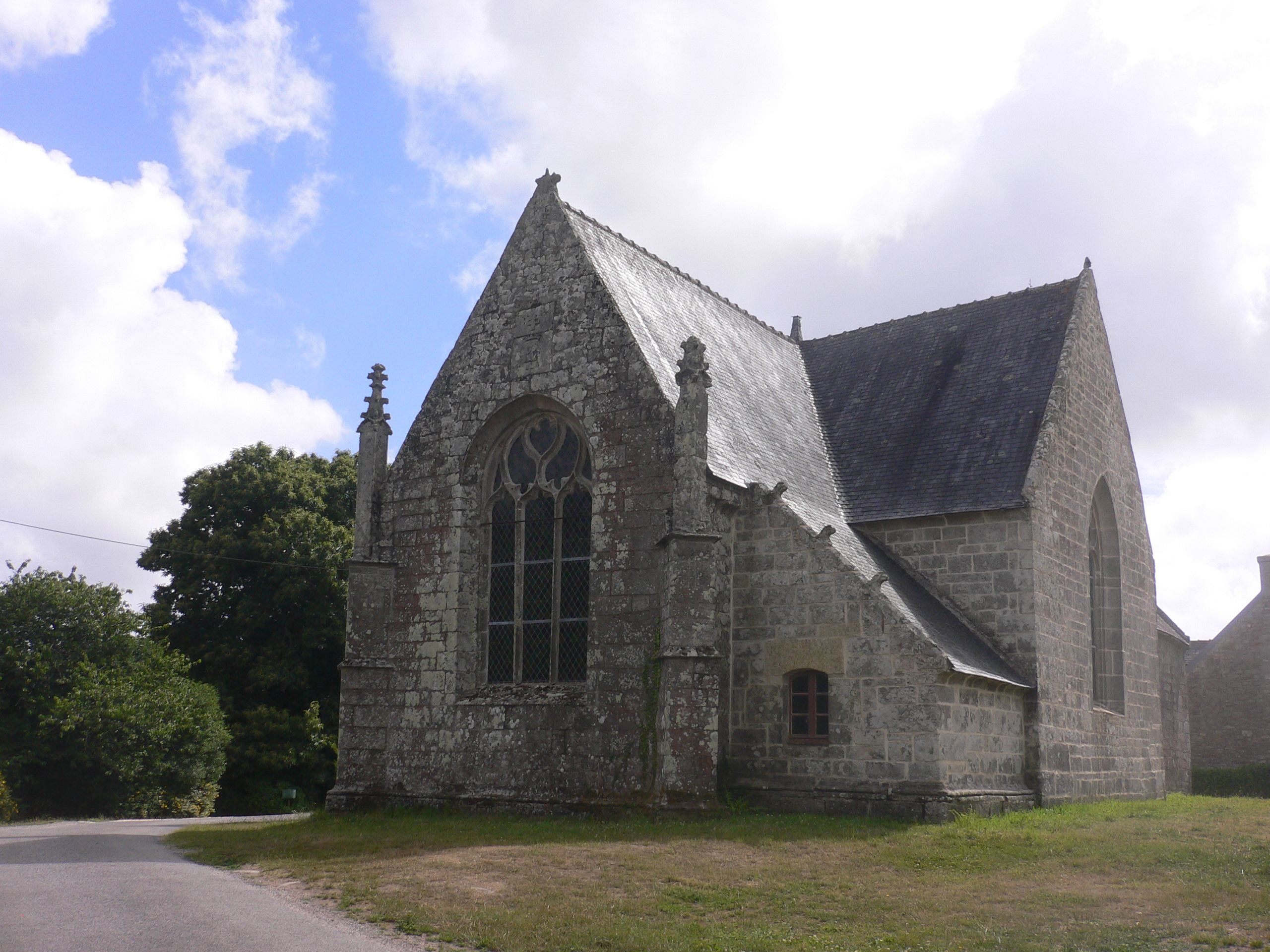 chapel Saint Eloi in Guiscriff, Brittany